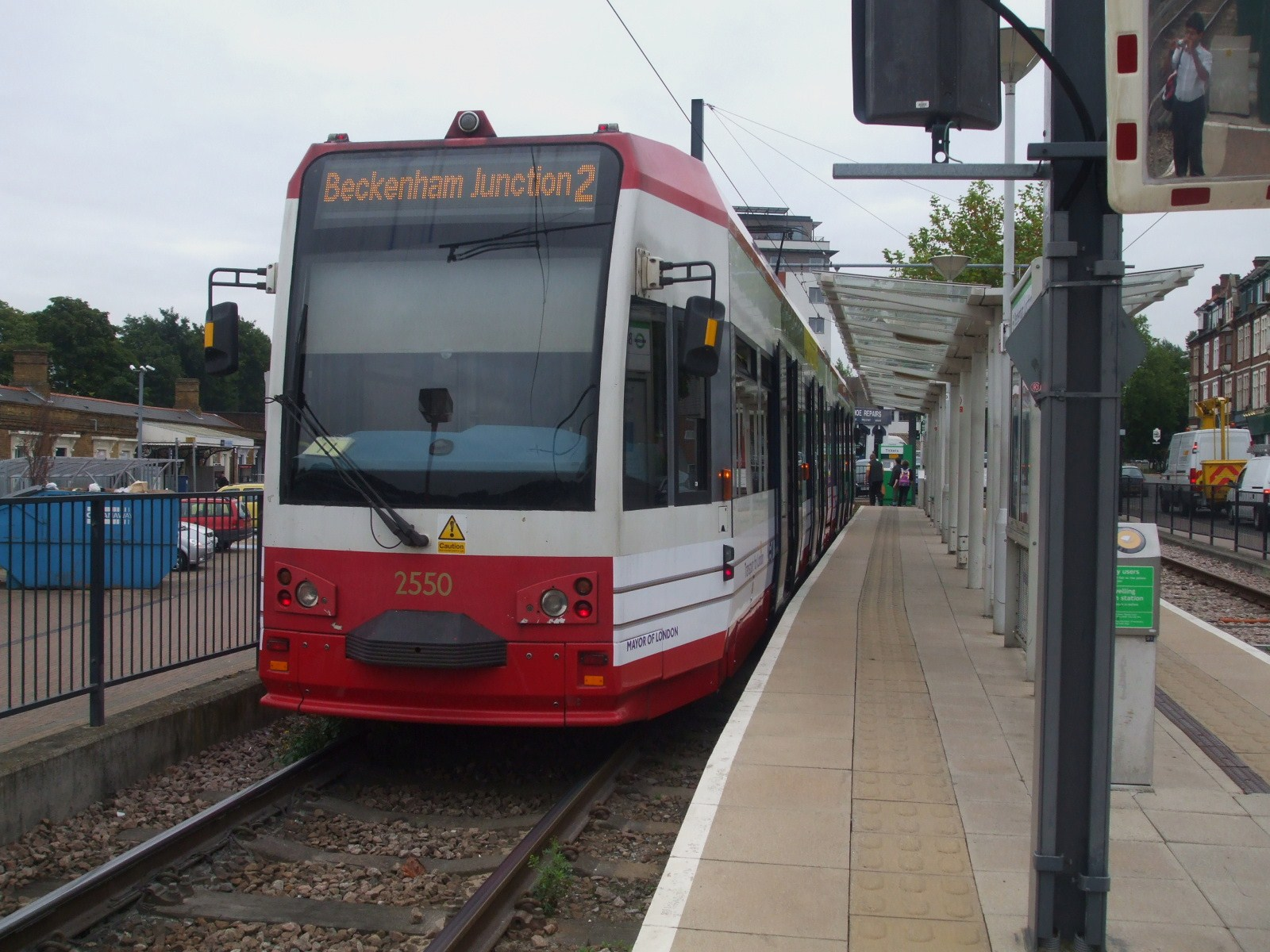 Beckenham Junction tramstop looking east to buffers, with tram 2550 awaiting departure. It is situated just south of the mainline station.